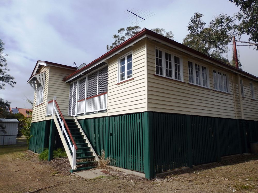 1937 Teachers Residence, from NW (2015)